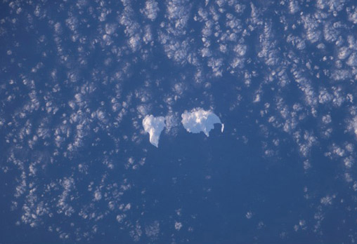 Landsat image of Chirpoy & Brat Chirpoev Island, Kuril Islands, Russia